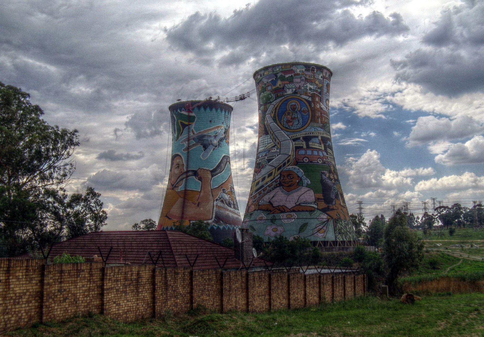 Orlando power station, Soweto, South Aftrica.